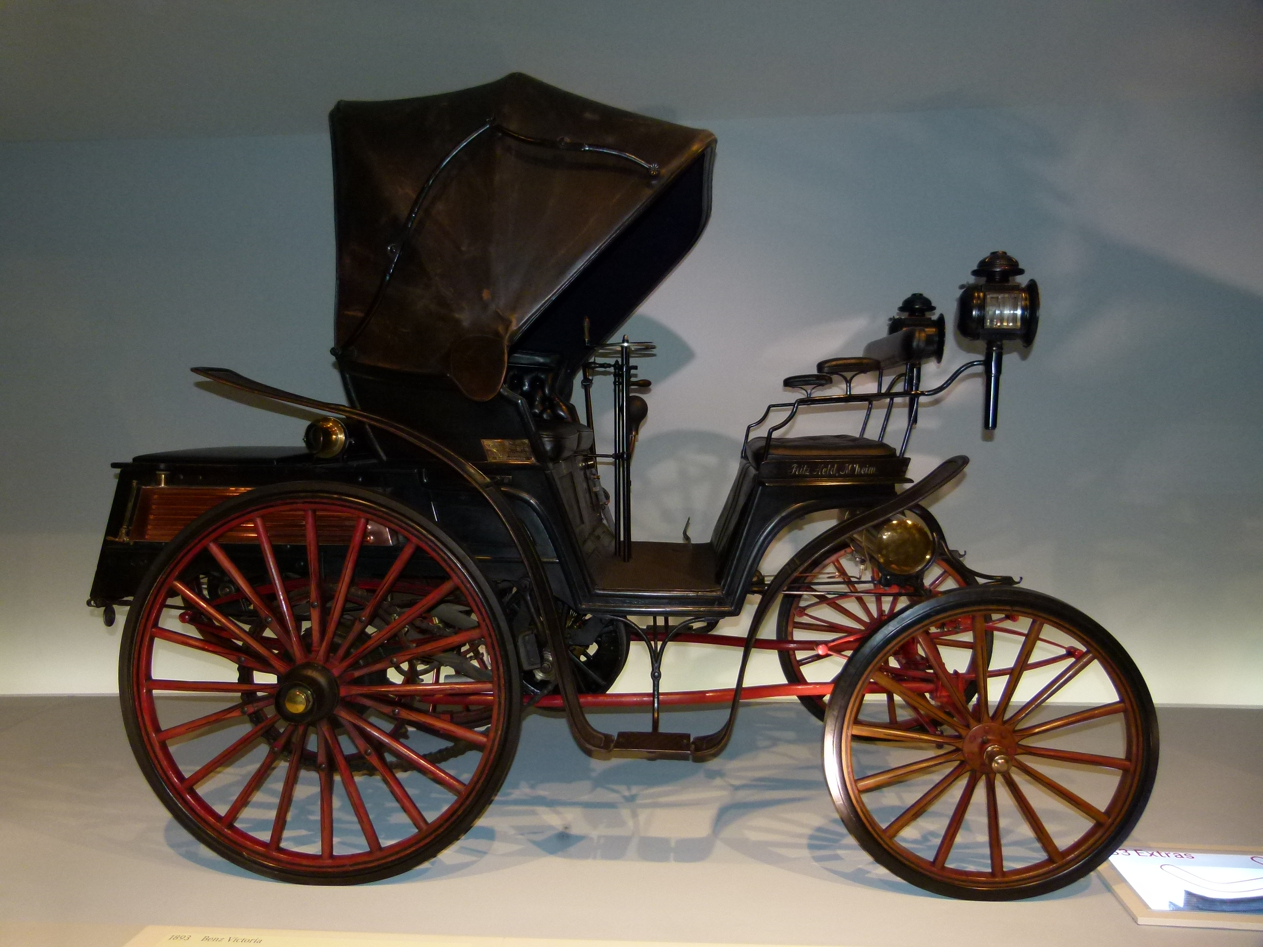 Benz Vis-à-Vis automobile, 1893 (3 hp, 18 km/h) at the Mercedes-Benz Museum, Stuttgart, Bad Cannstatt. (The museum's web page for this exhibit correctly identifies it as a Benz Vis-à-Vis model, though the physical exhibit may still be labeled as a Victoria as of late 2017.